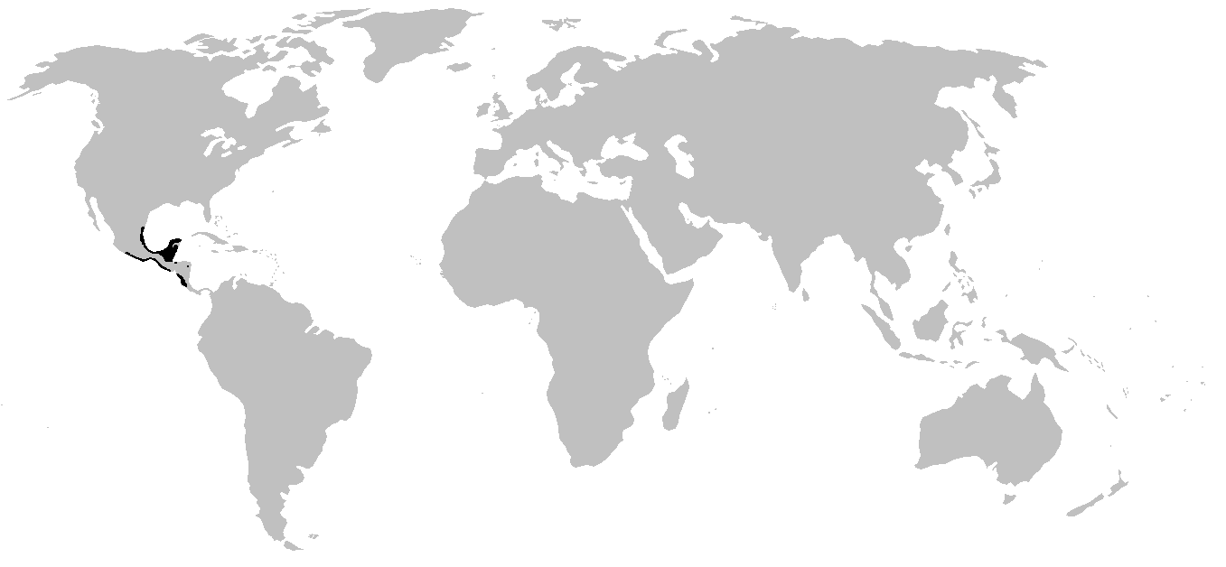 Distribution of Rhinophrynidae.